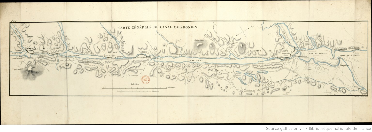 Overall map of the Caledonian Canal